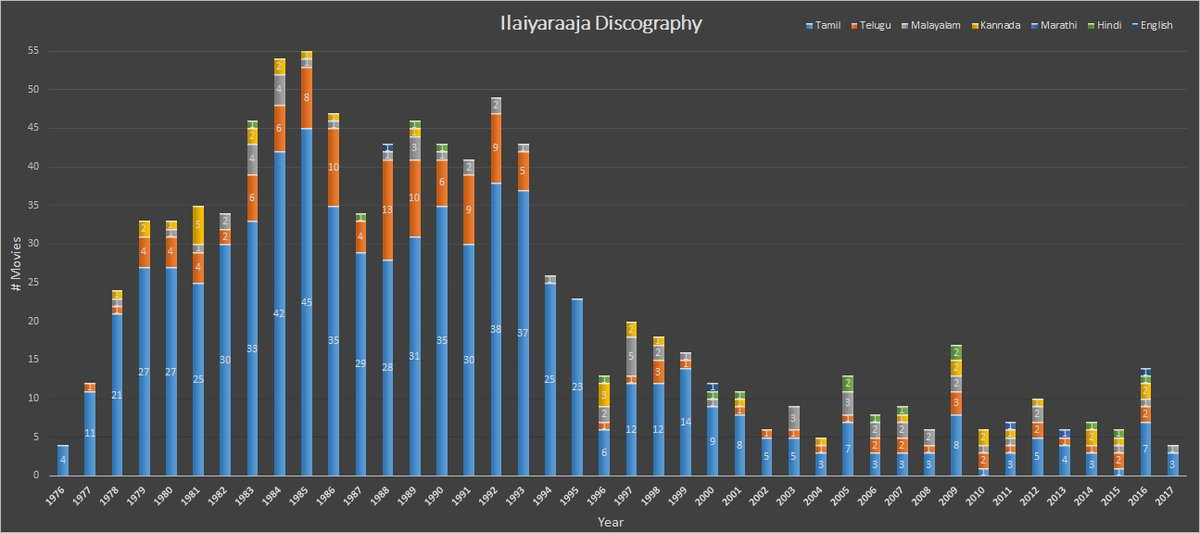 Discography Graphically Described Through a Chart with Colours to Represent Languages